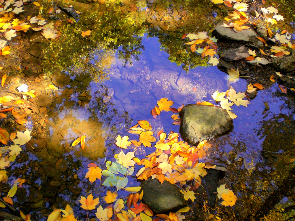 Photo of the Walhalla ravine in the Clintonville area of Columbus, Ohio.